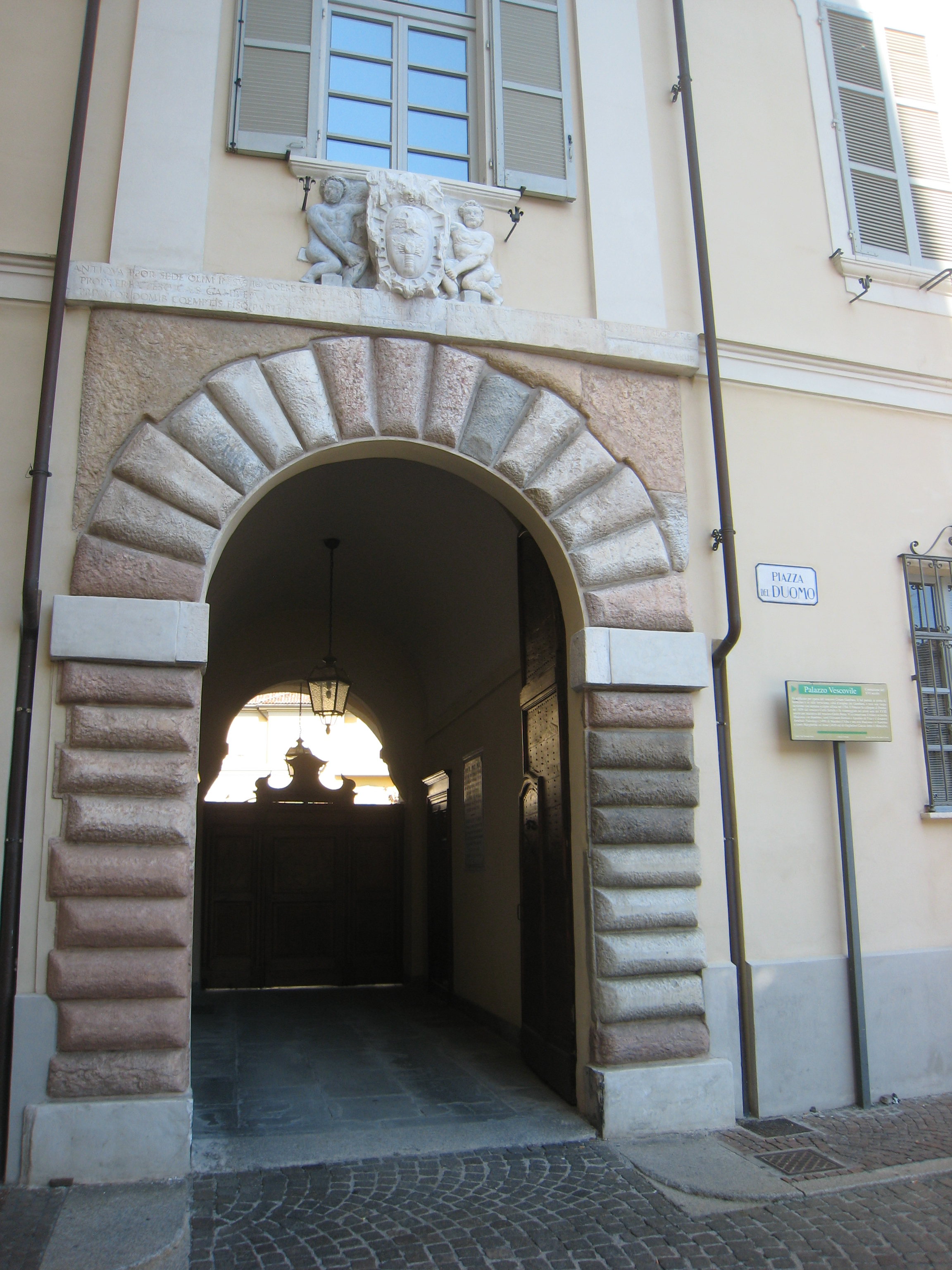 Tortona. Entrance of episcopal palace.